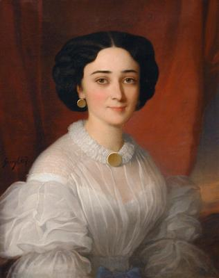 Vilma Pázmándy de Szomor et Somorod (1839–1919), by marriage Countess Ödön Lónyay de Nagylónya et Vásárosnamény. Mother of Elemér Lónyay.